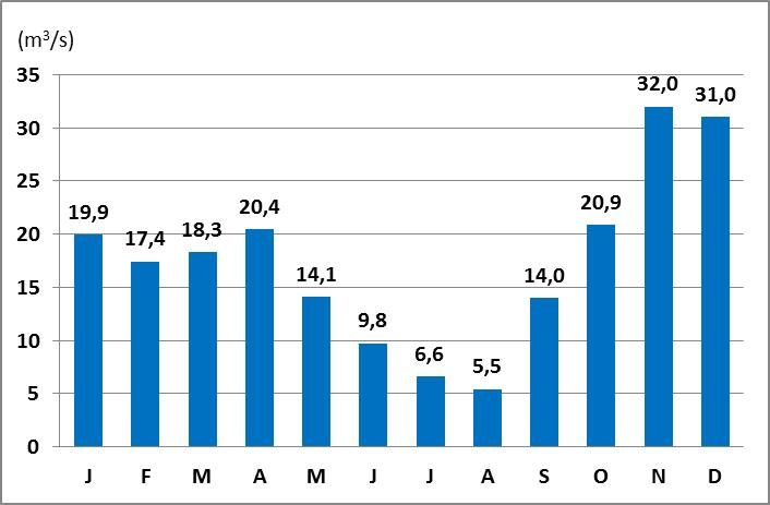 Average monthly discharges of Vipava River at the gauging station Miren in 1981–2010